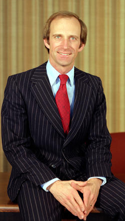 Denis Hayes, while director of the Solar Energy Research Institute (1979-1981).